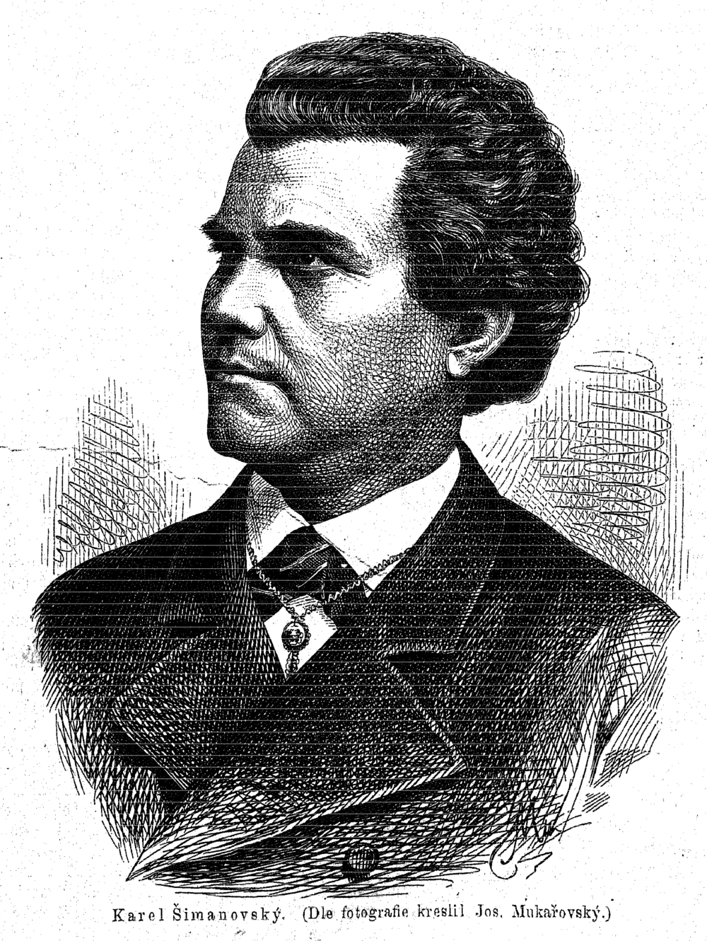 Portrait of Karel Šimanovský, Czech actor.